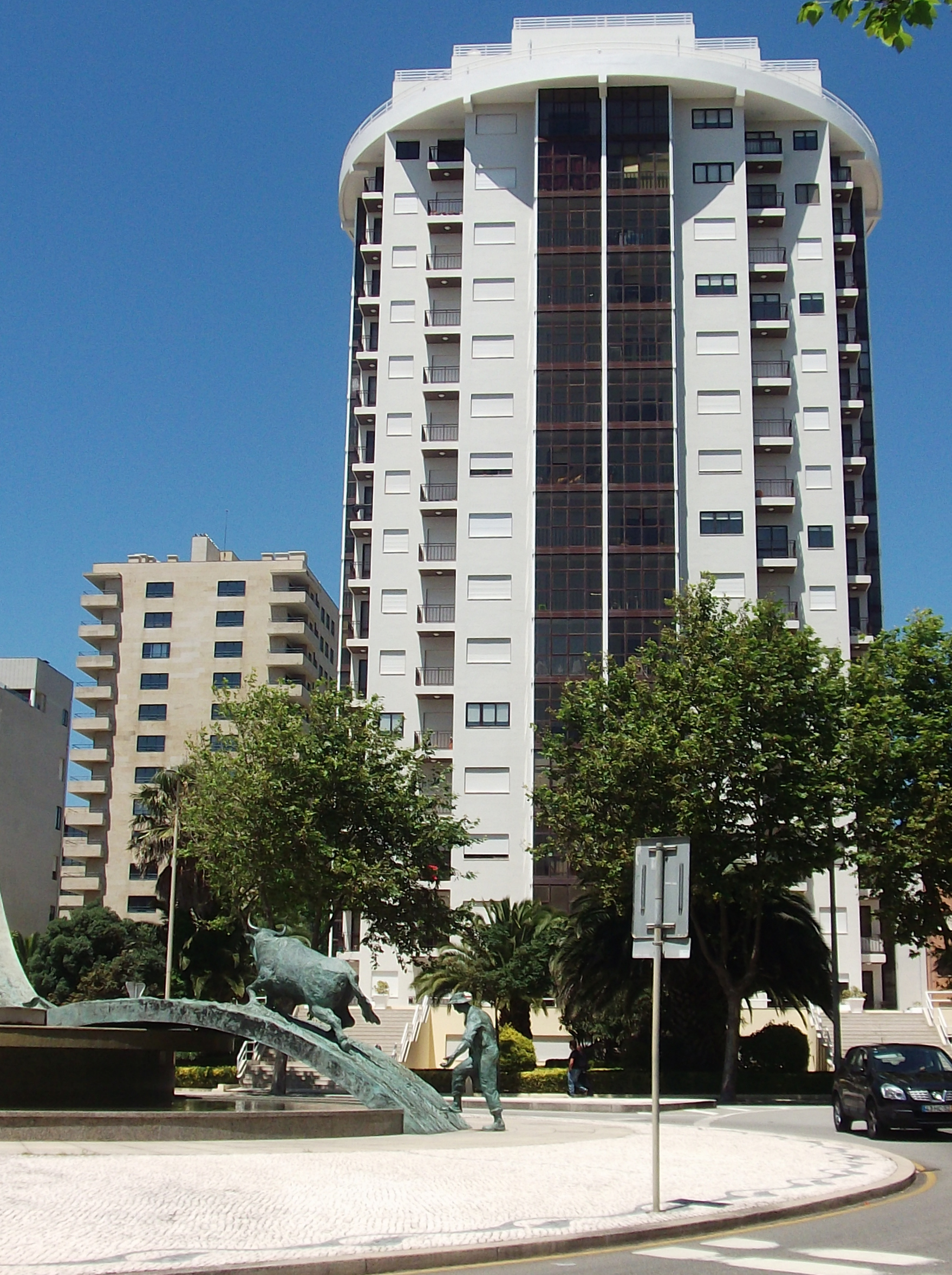 Touro intersection and Cristal Mar Tower in Avenida Vasco da Gama, Póvoa de Varzim, Portugal